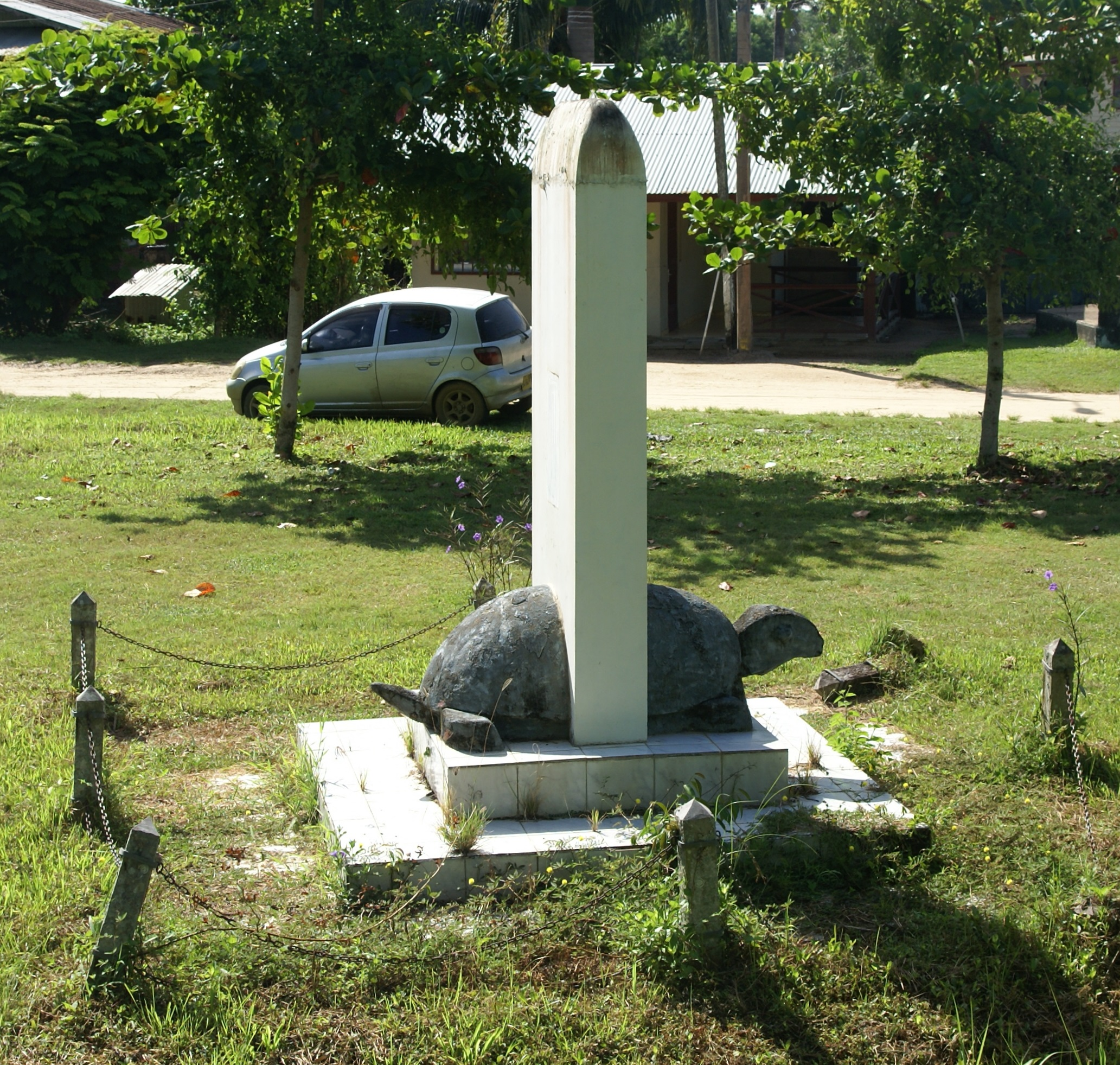 Nieuw-Amsterdam, Surinam. Monument in remembrance of 155 years Chinese immigration. By Paul Woei, 2008.